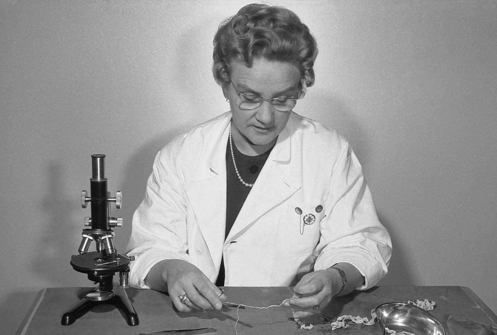 Photograph of the Finnish nurse and Member of Parliament Alli Vaittinen-Kuikka (1918–2006) examining a Diphyllobothrium latum.